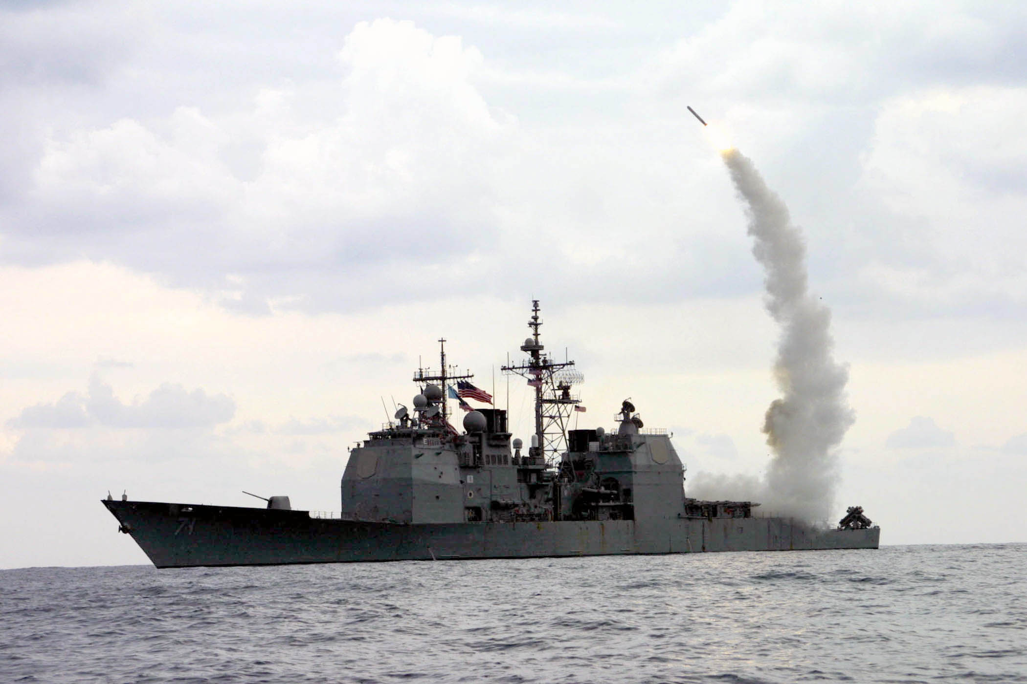 The Mediterranean Sea (Mar. 23, 2003) -- A Tomahawk Land Attack Missile (TLAM) launches from the guided missile cruiser USS Cape St. George (CG 71). The Cape St. George is deployed in support of Operation Iraqi Freedom, the multi-national coalition effort to liberate the Iraqi people, eliminate Iraq’s weapons of mass destruction, and end the regime of Saddam Hussein. U.S. Navy photo by Intelligence Specialist 1st Kenneth Moll. (RELEASED)